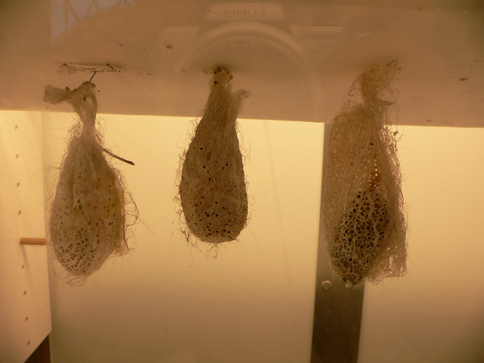 Pictures taken by myself at the Audubon Insectarium